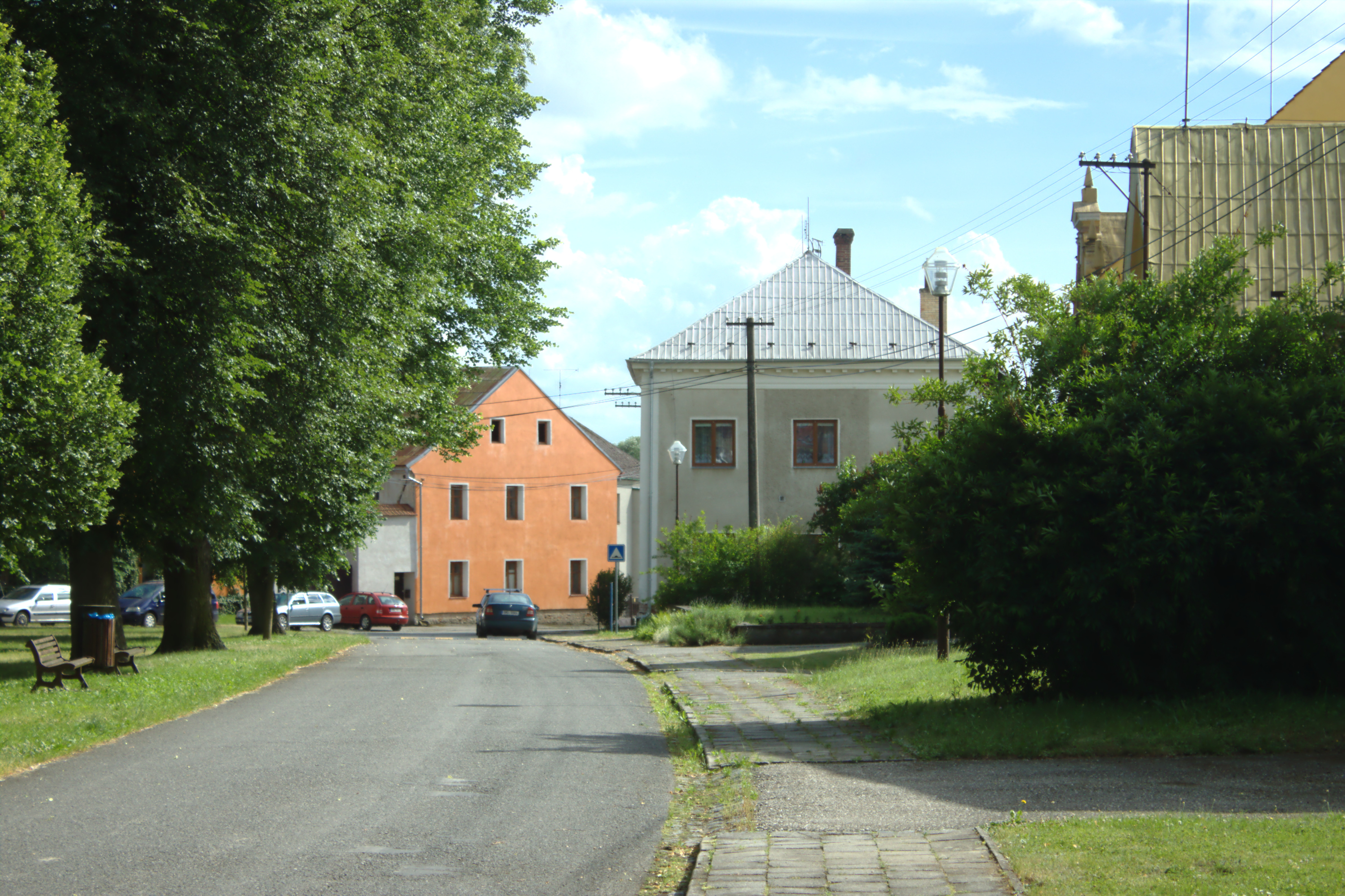 A common in Želechovice, Olomouc Region, CZ